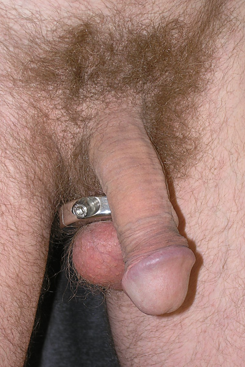 Ball Stretcher